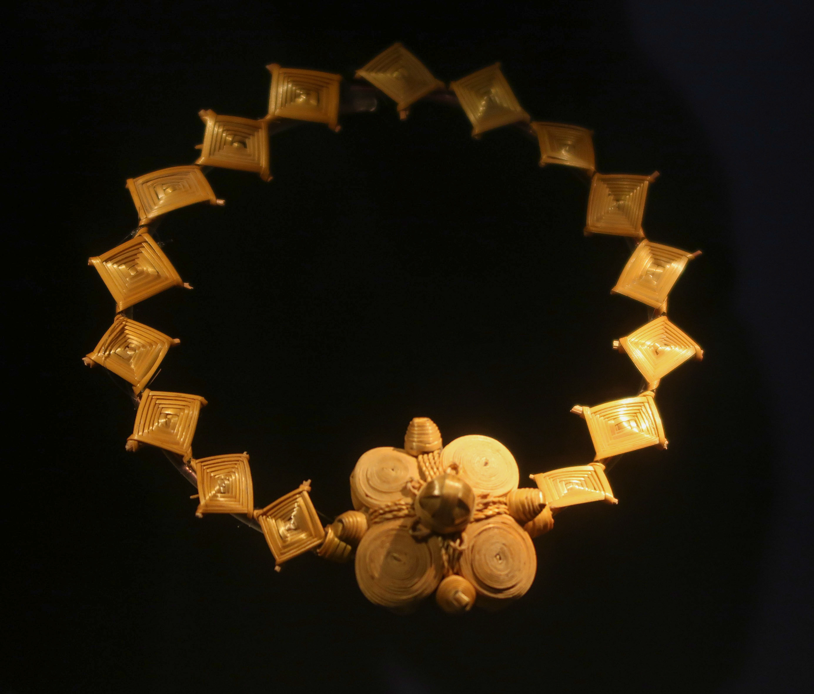 Songhaï Necklace. Straw. Timbuktu, before 1951. Museum der Kulturen Basel.